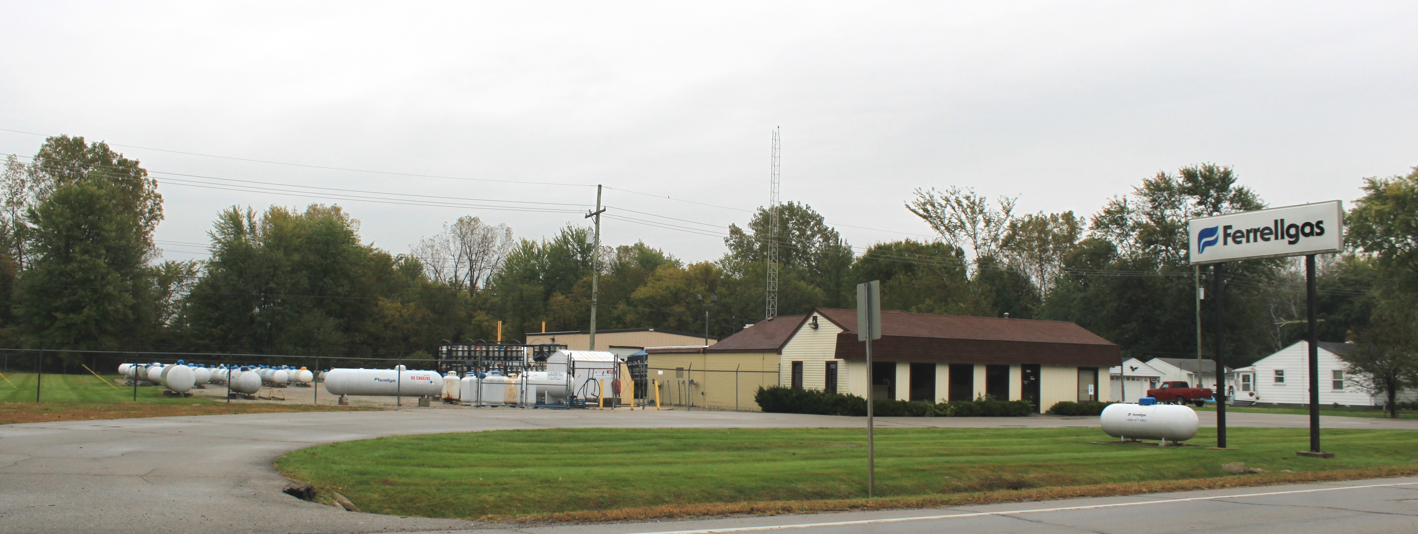 Ferrellgas retailer, 17771 Sumpter Road, Sumpter Township (Belleville mailing address), Michigan.